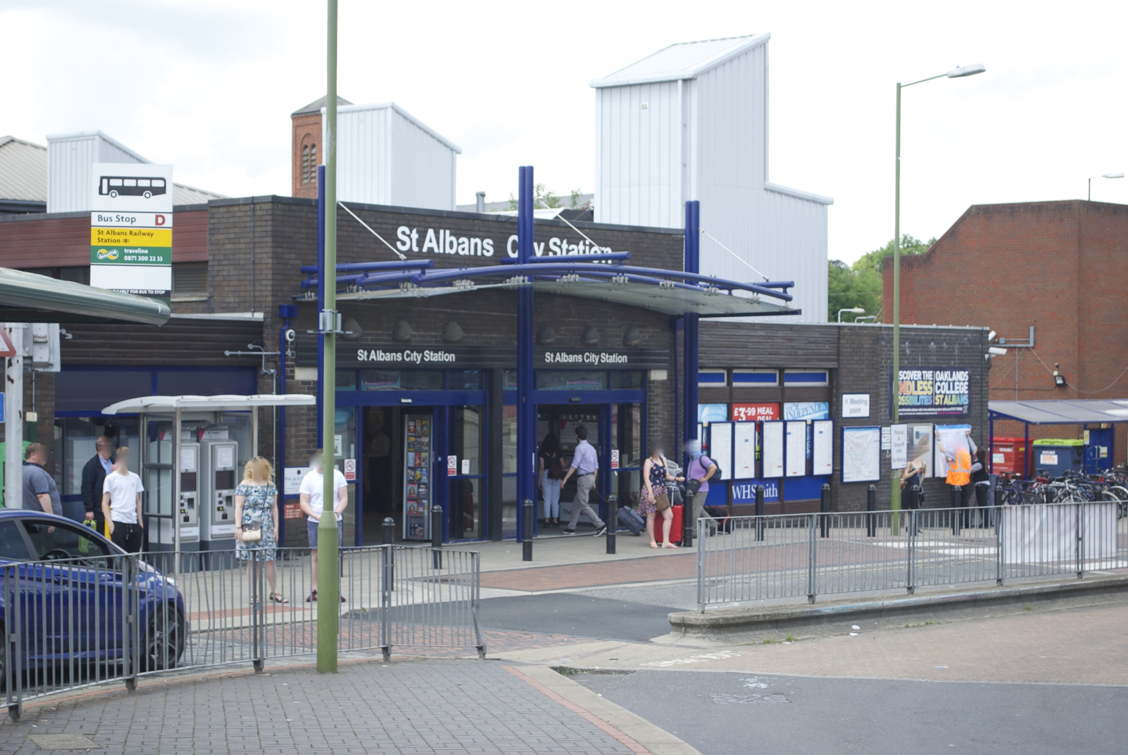 Photograph of the main buildings of the St Albans City Railway station taken from the East at street level.